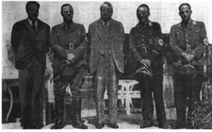 William Hearst with fascists: Alfred Rosenberg, Karl Bömer, Thilo von Trotha, Rosenberg's adjutant